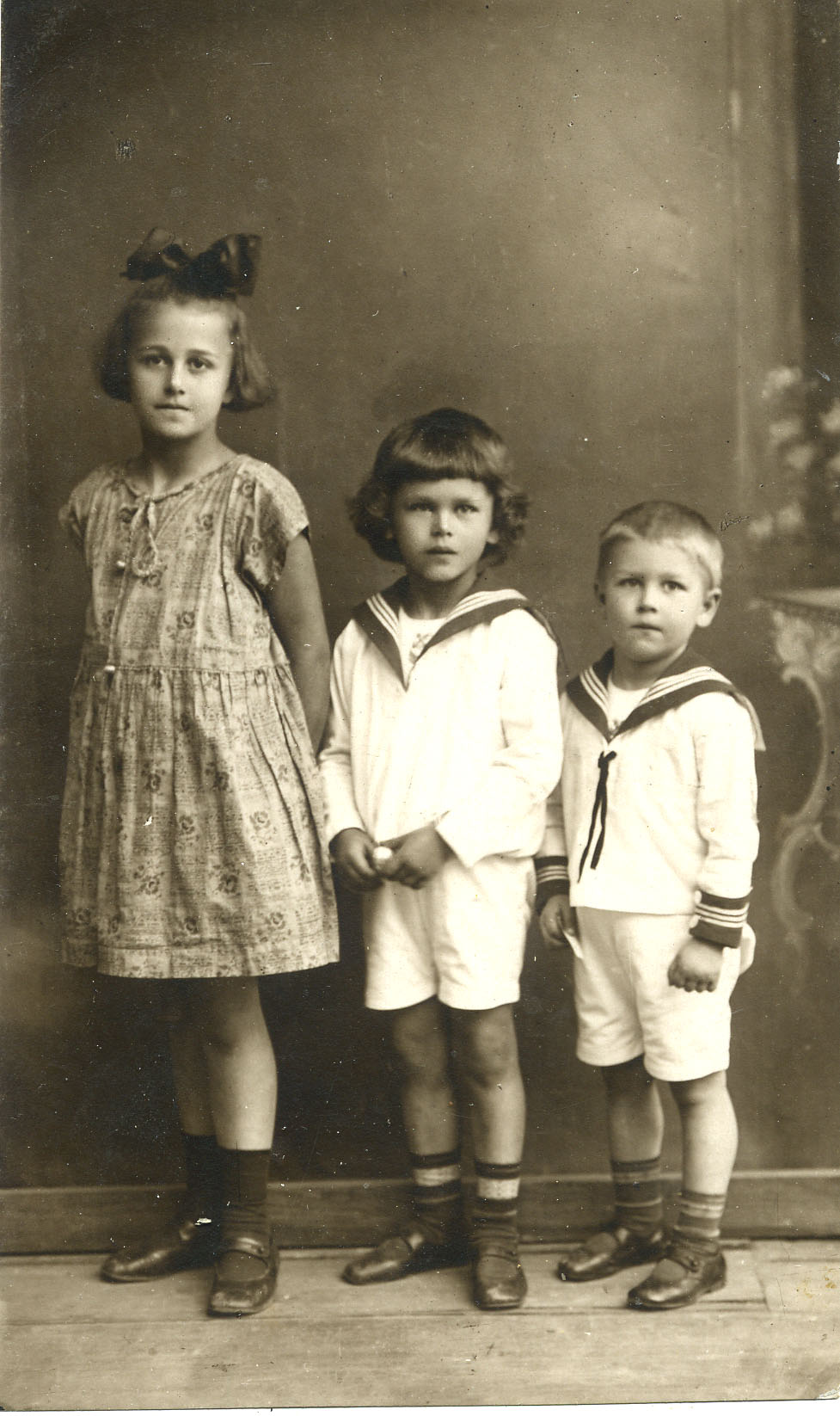 Nikolay Ieronimovicha Krauze's children: Katya, Serezha and Nikolay